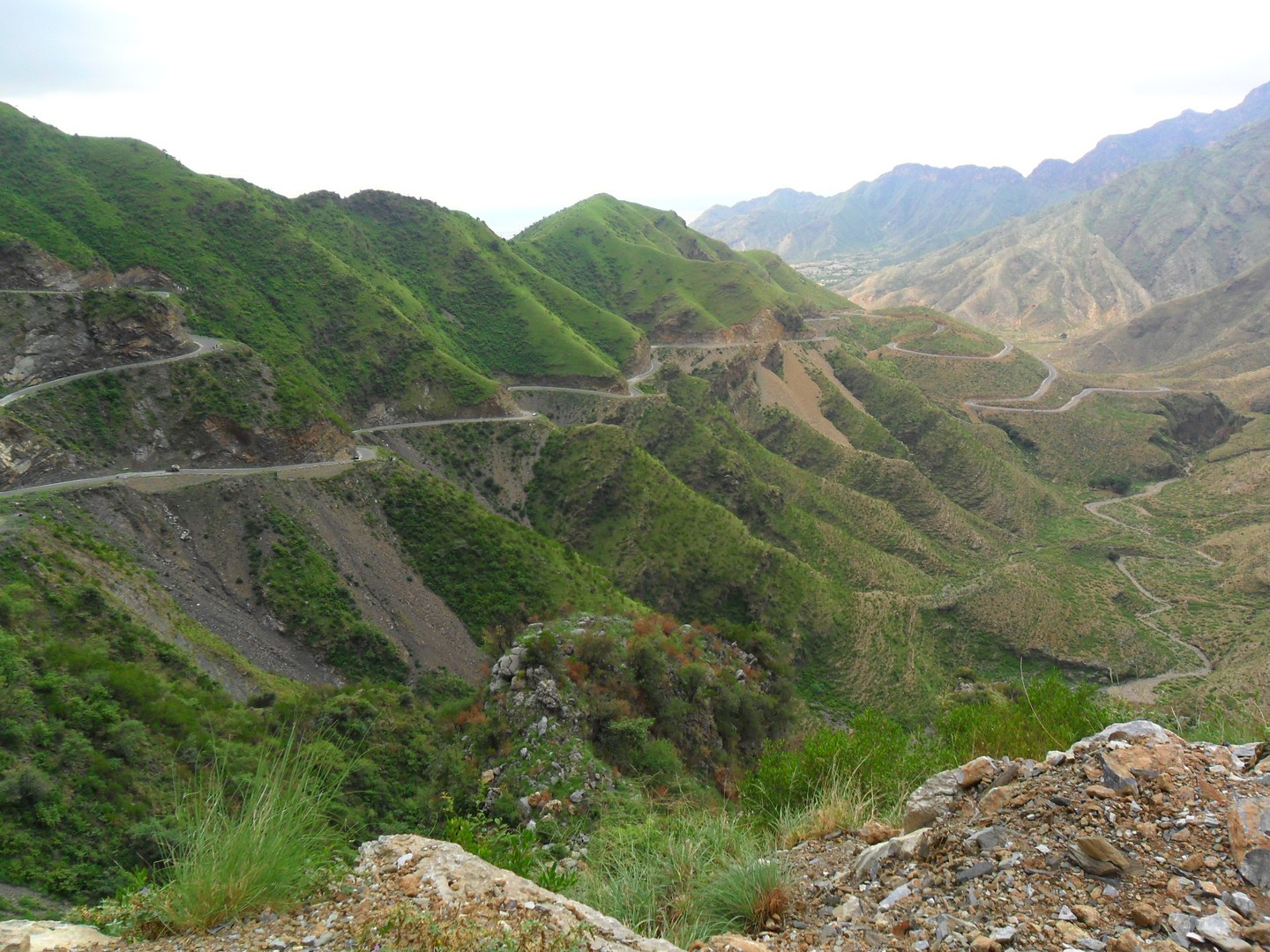 the most beautiful way to Bunner